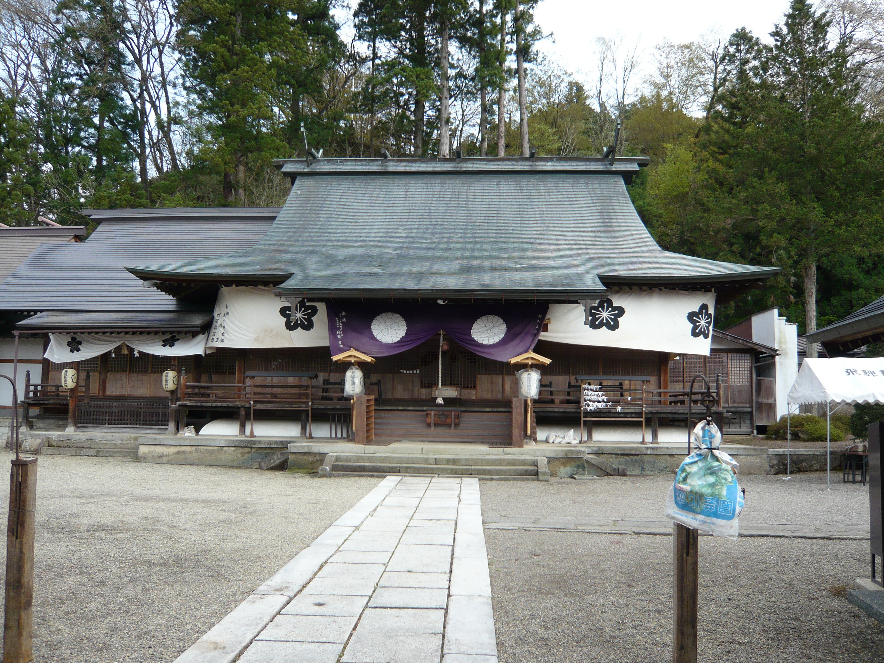 Hida Gokoku Shrine, Takayama, Gifu, Japan. 飛騨護國神社（岐阜県高山市）